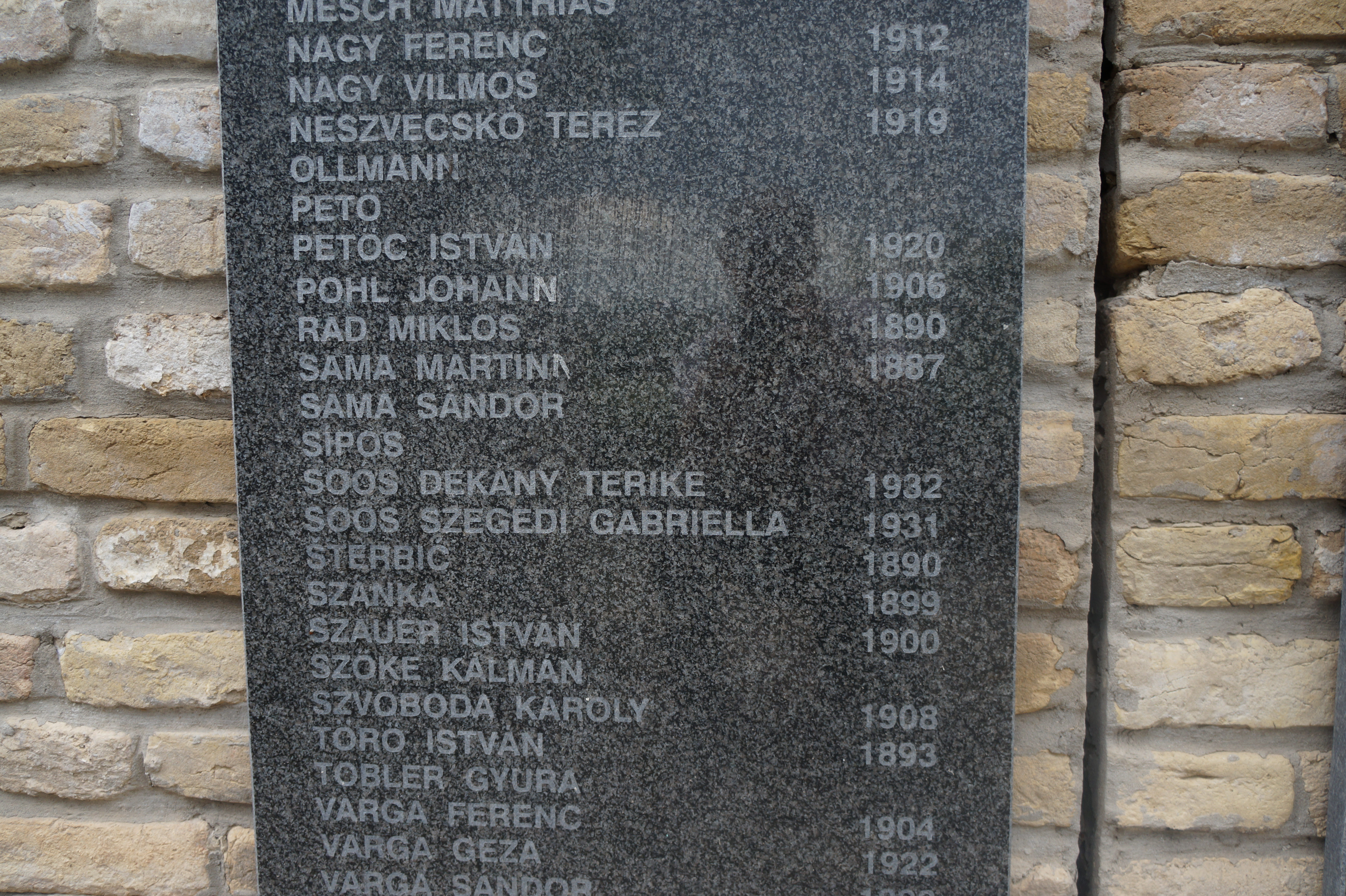 Names in the memorial plaque at 1944 vendetta memorial in Subotica. Two victims of the partisan terror were girls ages 12 and 13.